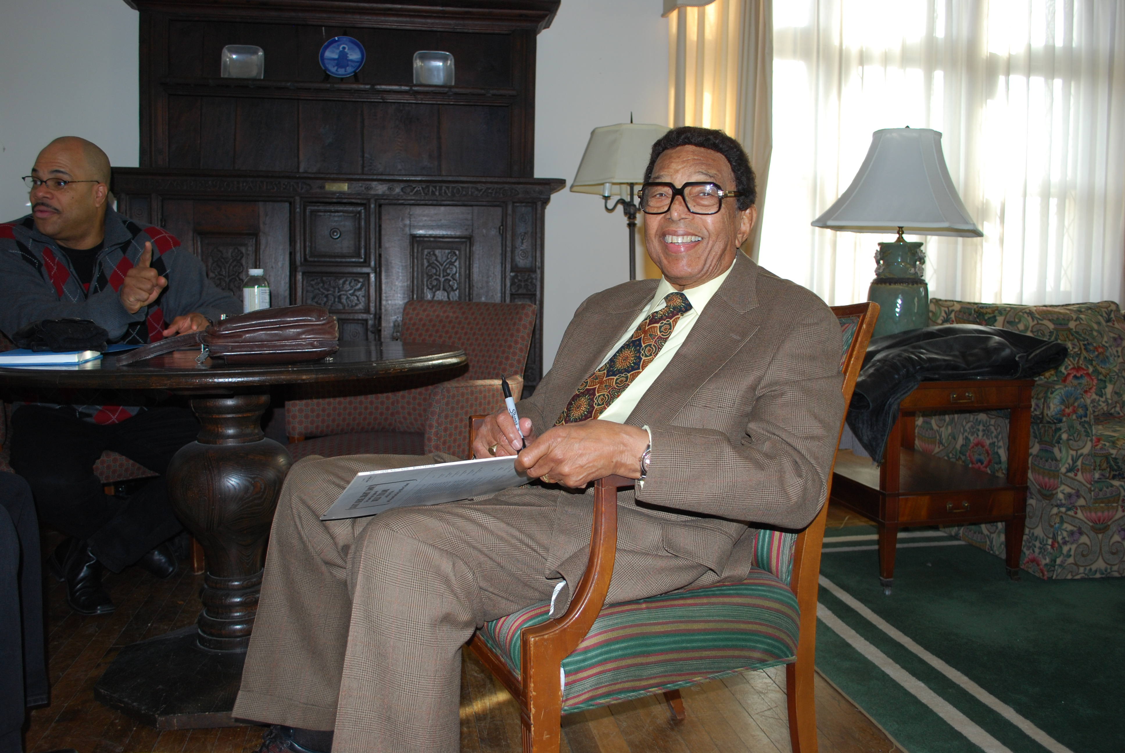 Dr. Billy Taylor signs an autograph before rehearsal with VocalEssence